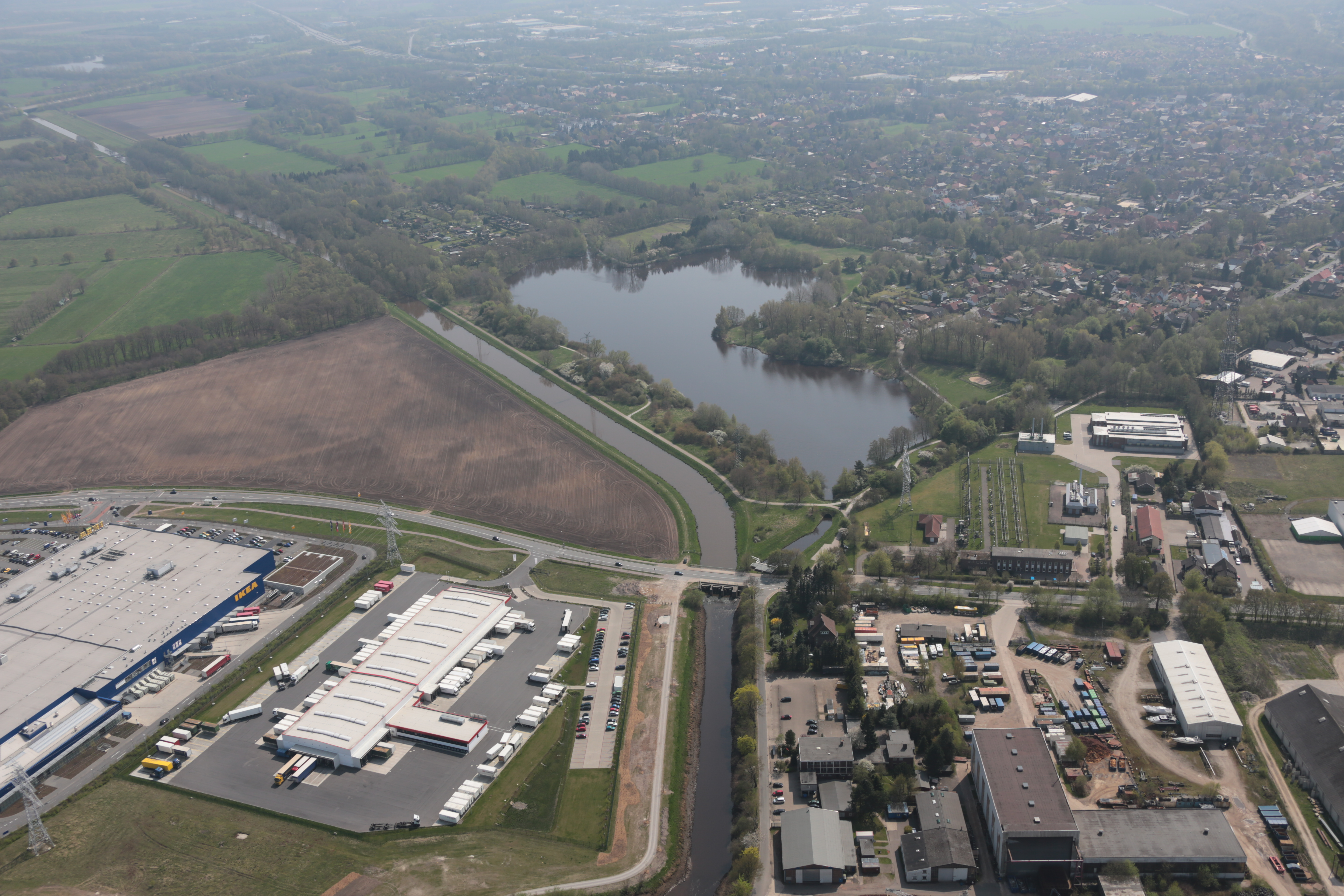 Fotoflug von Nordholz-Spieka nach Oldenburg und Papenburg This photo was taken by Alchemist-hp. If you use one of my photos, an email (account needed) or a message or direct to: my email account would be greatly appreciated. Please note the license terms. Other licensing terms can get discussed, too. This file is copyrighted and has been released under a license which is incompatible with Facebook's licensing terms. It is not permitted to upload this file to Facebook.